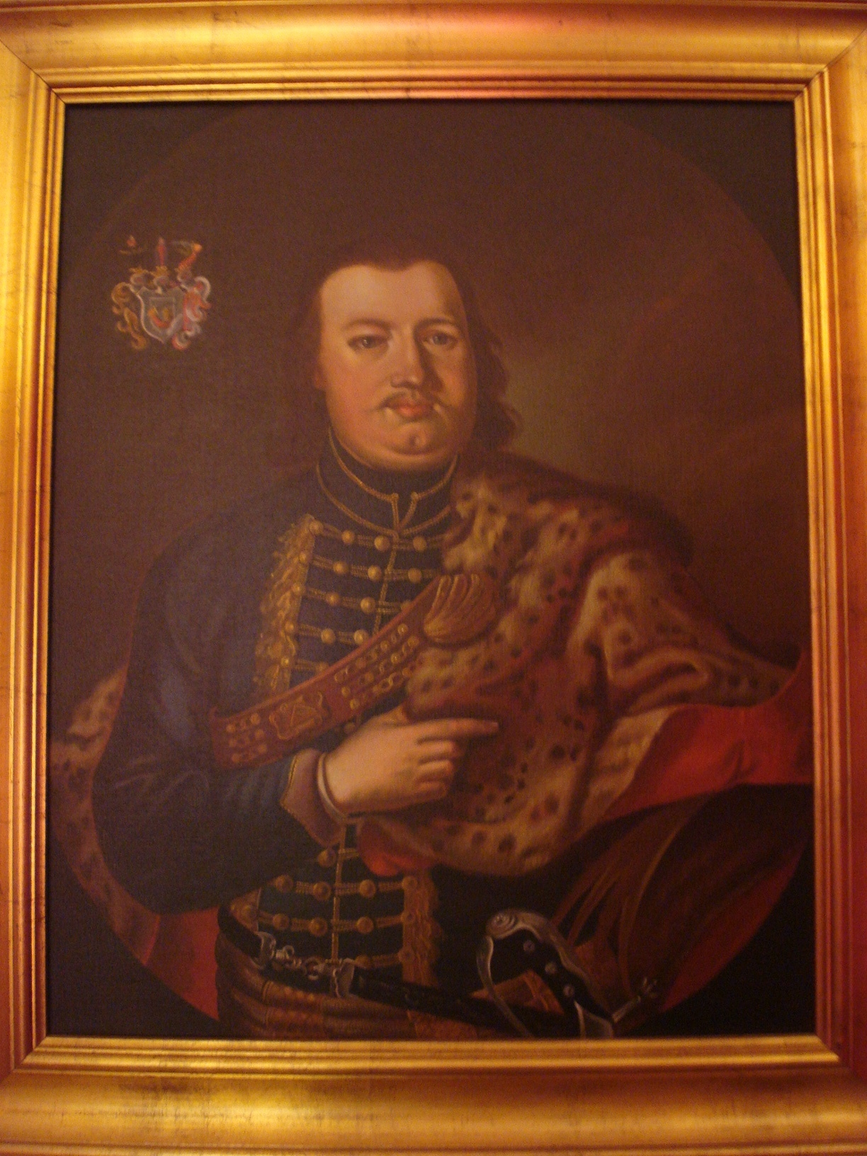 Count Krsto II Oršić (Christopher II Orshich) of Slavetich (1718-1782), general of the Habsburg Monarchy imperial army, owner of Gornja Stubica, Croatia